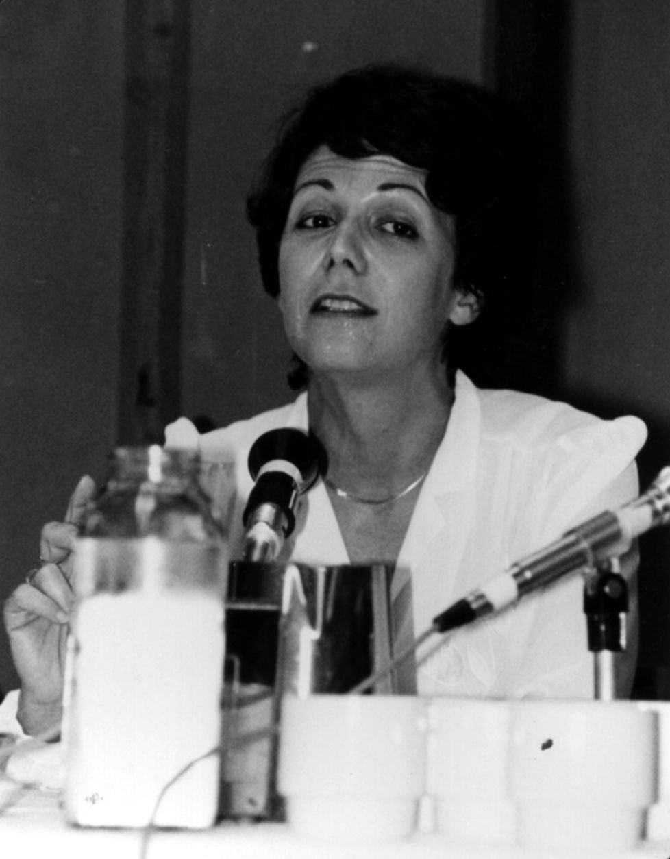 Anita Shapira, a professor at Kibbutz Ein judge in the seventies